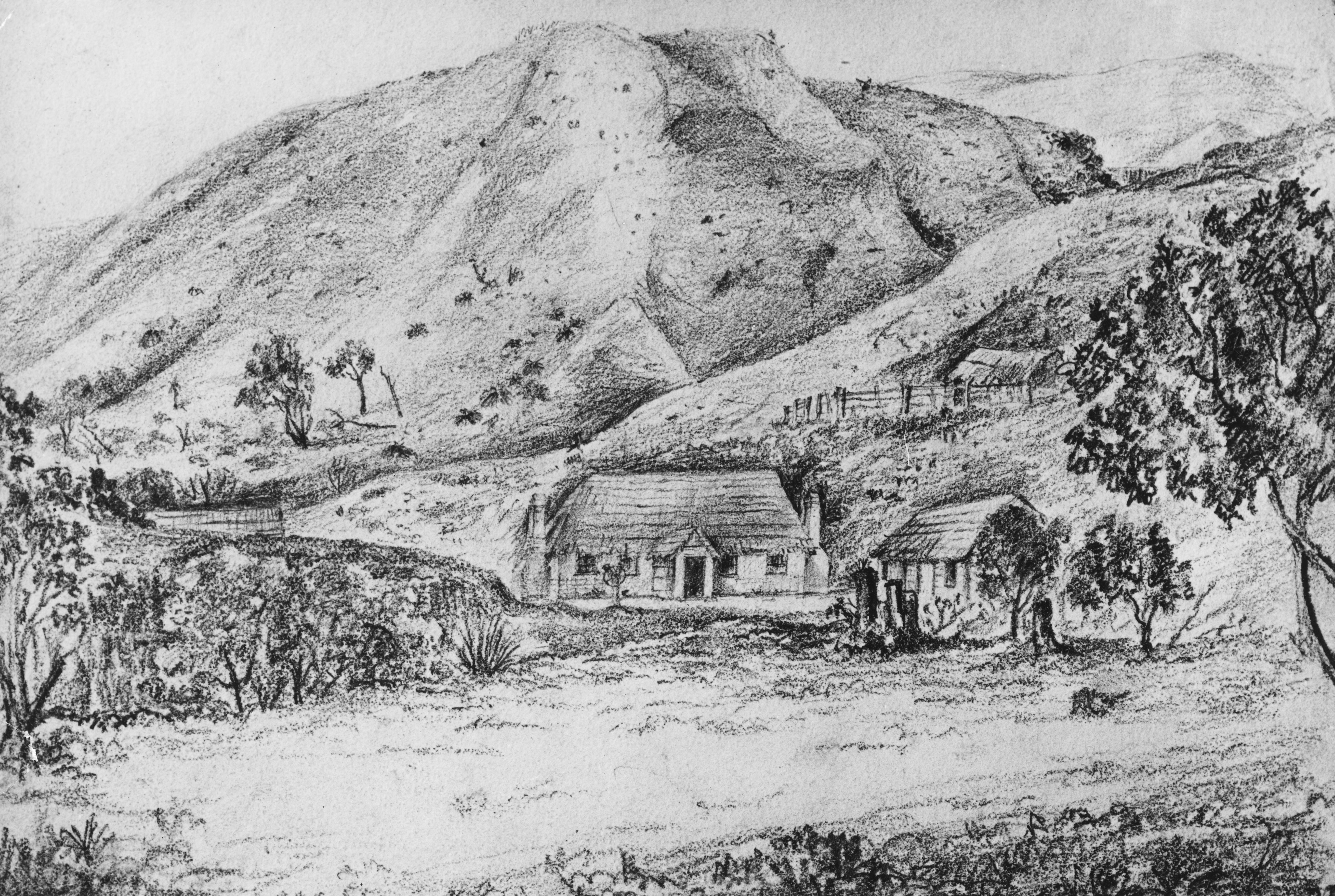 Whatarangi Station, Palliser Bay, New Zealand circa 1850 by Robert Pharazyn (1833-1896) A run belonging to C J Pharazyn and W Fitzherbert A small thatched house with chimneys at both ends and two smaller buildings alongside and above. A few trees are near the house, with bare hills, showing a large landslip, behind. Artist is seated in what is now Te Miha Crescent, Palliser Bay, Wellington, New Zealand. see camera location below